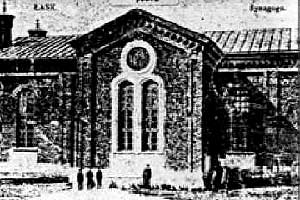 Synagogue in Łask